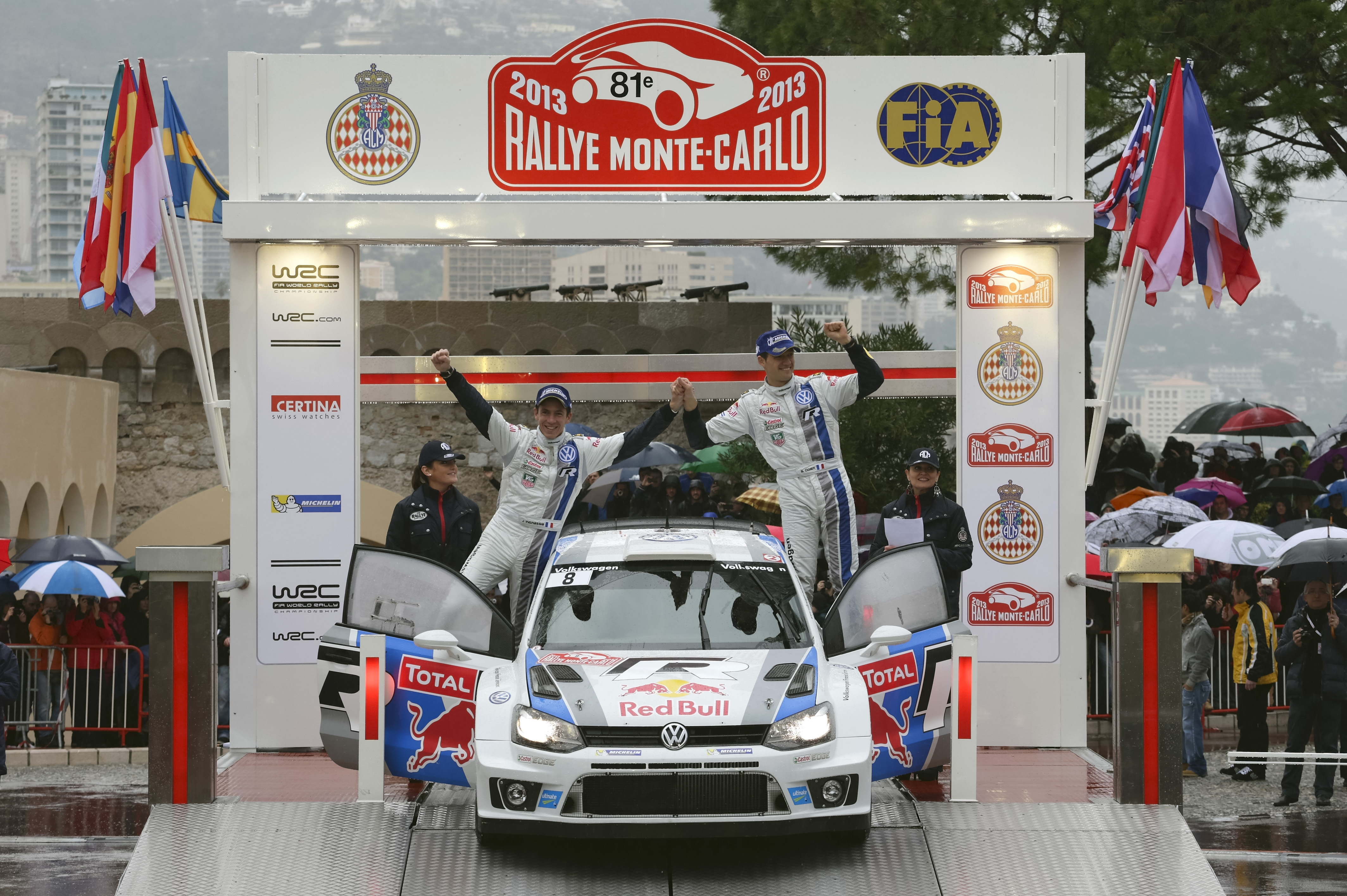 Sébastien Ogier and co-driver Julien Ingrassia celebrate 2nd place in the 2013 Rallye Automobile Monte-Carlo.